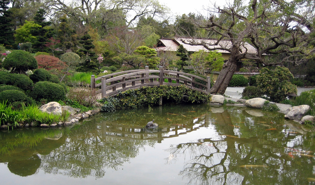 A bridge over the koi pond at Hakone Gardens in Saratoga on 2 April, 2006. Source: Flickr at [1]. Author:doopokko